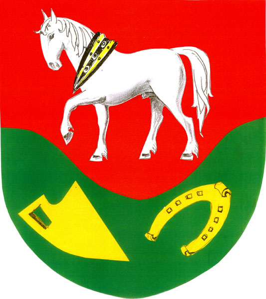 Municipal coat of arms of Podolí village, Vsetín District, Czech Republic.